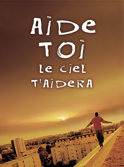 Poster of the movie With a Little Help from Myself (Q2827787)